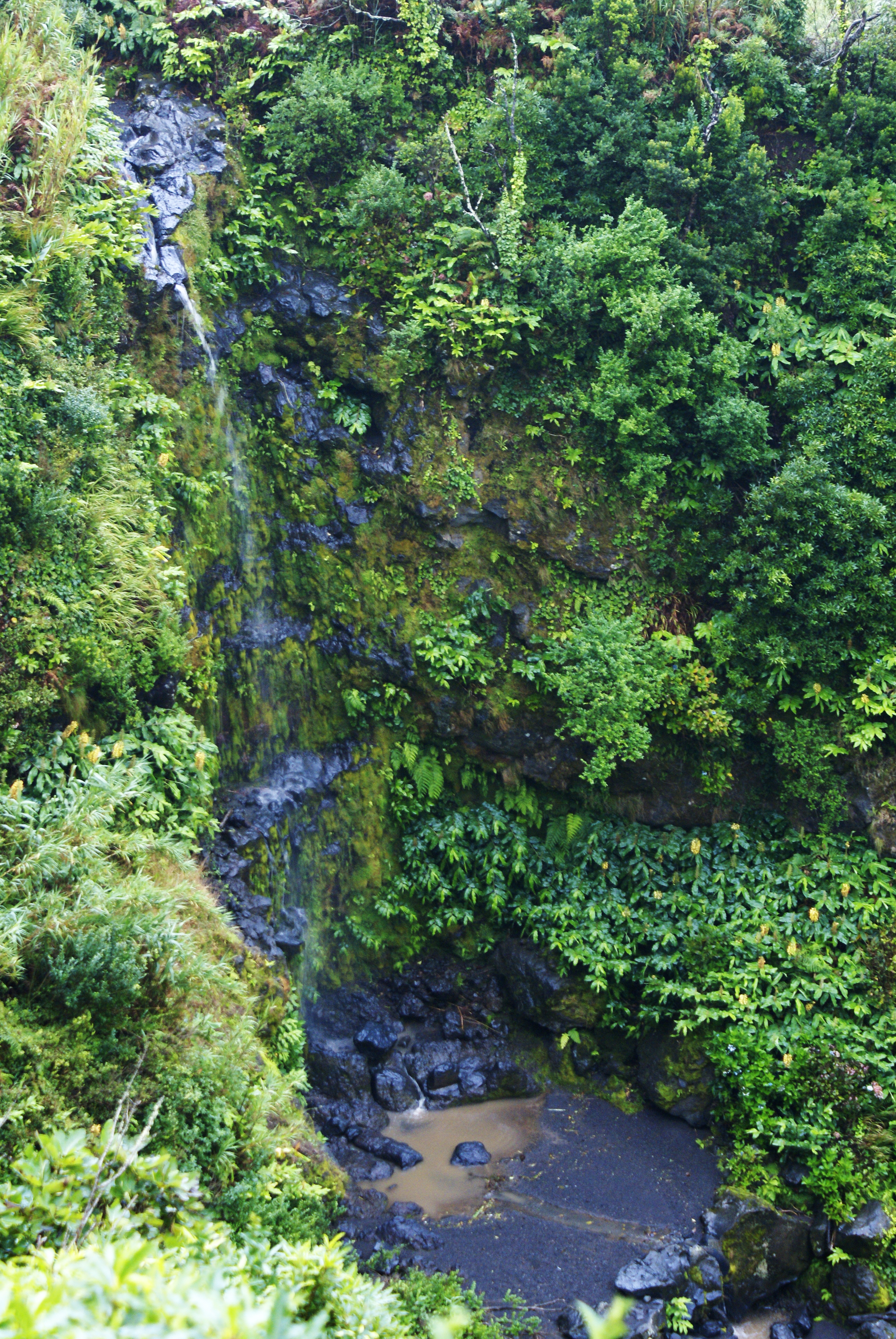 View from the Ribeira Funda lookout, Cedros, Horta, Faial (Azores), Portugal